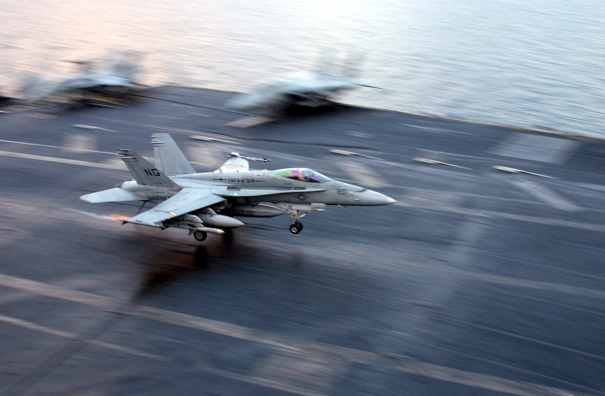 At sea aboard USS John C. Stennis (CVN 74) - An F/A-18 "Hornet" from the "Black Knights" of Marine Fighter Attack Squadron Three One Four (VMFA-314) makes an arrested landing on the flight deck.